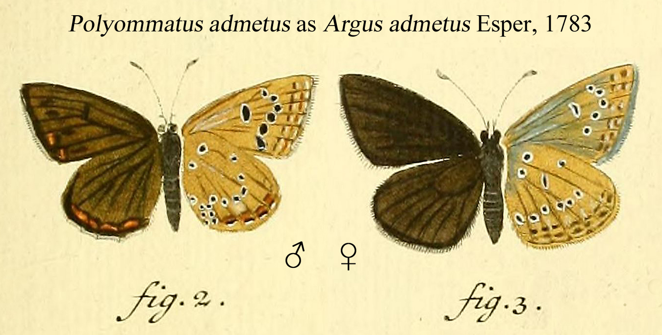 Polyommatus admetus as Argus admetus Esper, 1783.